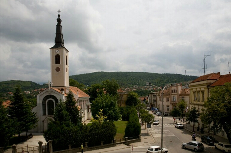 Picture of the church of St. Nicholas in town square in Aleksinac, near town hall.